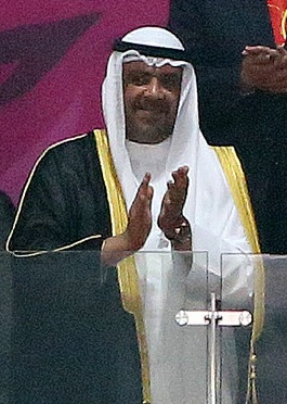 Ahmed Al-Sabah, President of Olympic Council of Asia